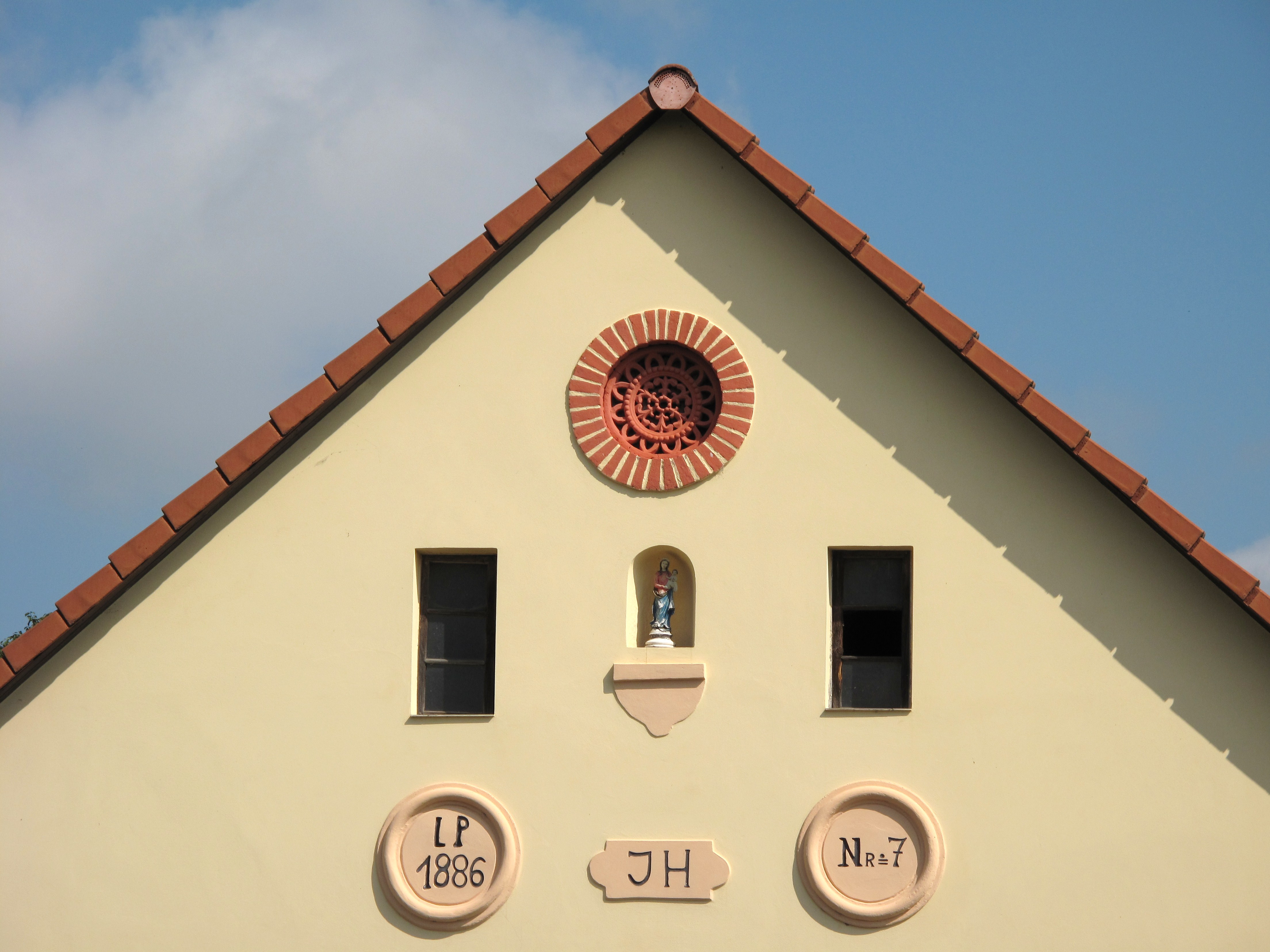 Gable of house no. 7 facade in Dlouhé Pole village, Benešov District, Czech Republic.